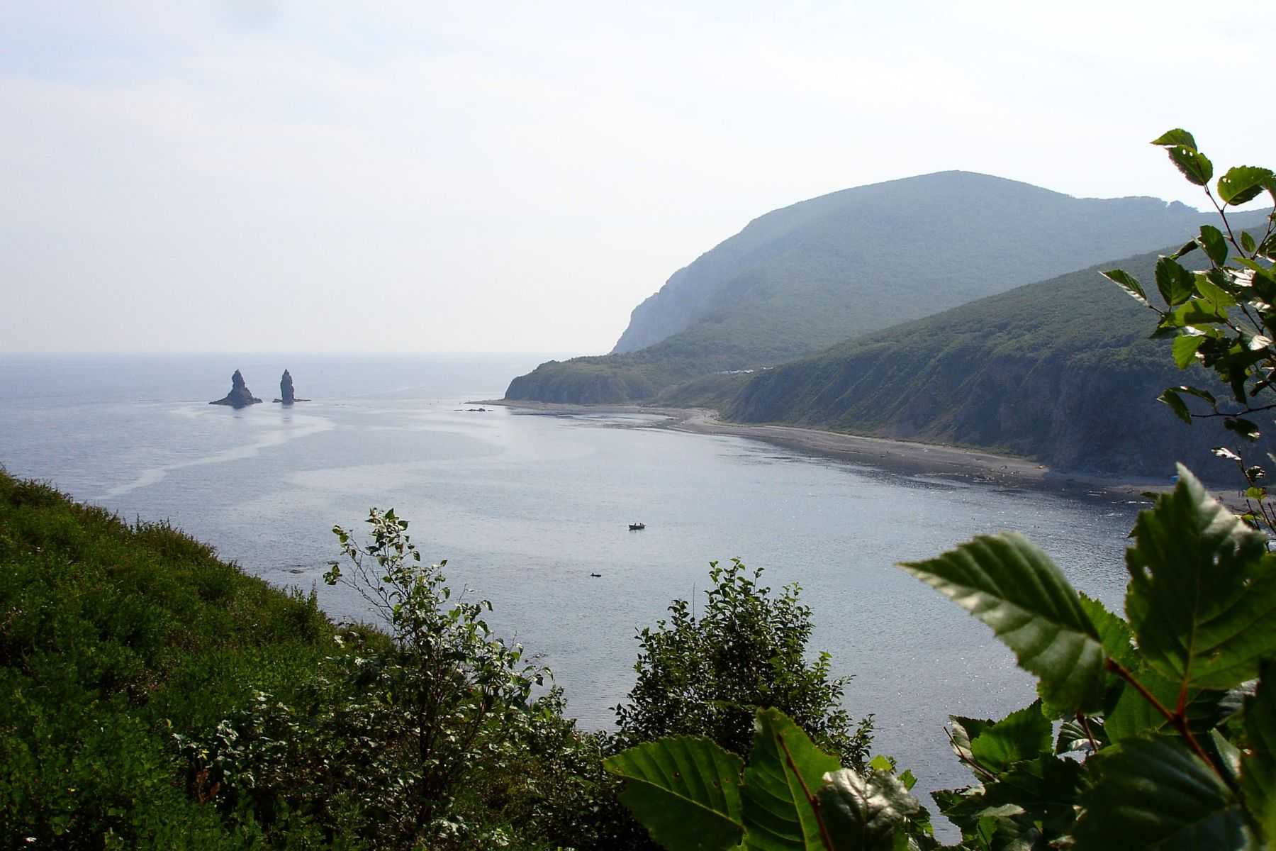 Dva Brata Islets (Two Brothers Islets) near Dalnegorsk, Russia.